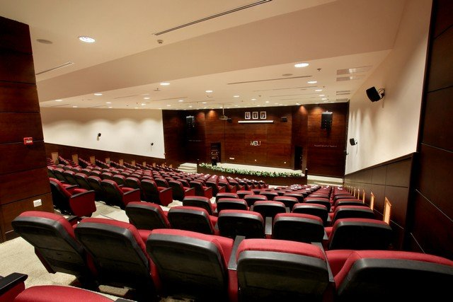 middle east university